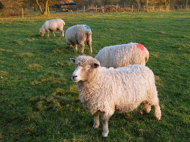 Lincolnshire Longwool ewes The coloured marks indicate which ewes have been served by which rams. The rams wear a harness incorporating a coloured crayon which leaves evidence behind (so to speak) of their activity, sometimes called "tupping".